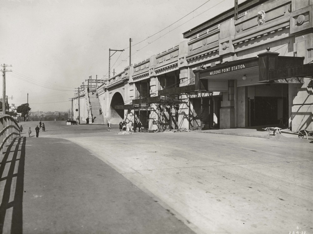 Milsons Point railway station Broughton Street entrance. Note the infrastructure for the former tram platforms.